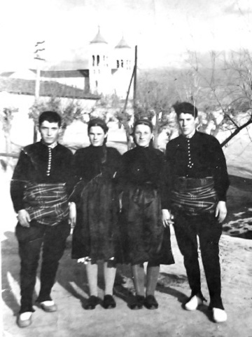 Youth from the village of Sekirovo in the 1940s